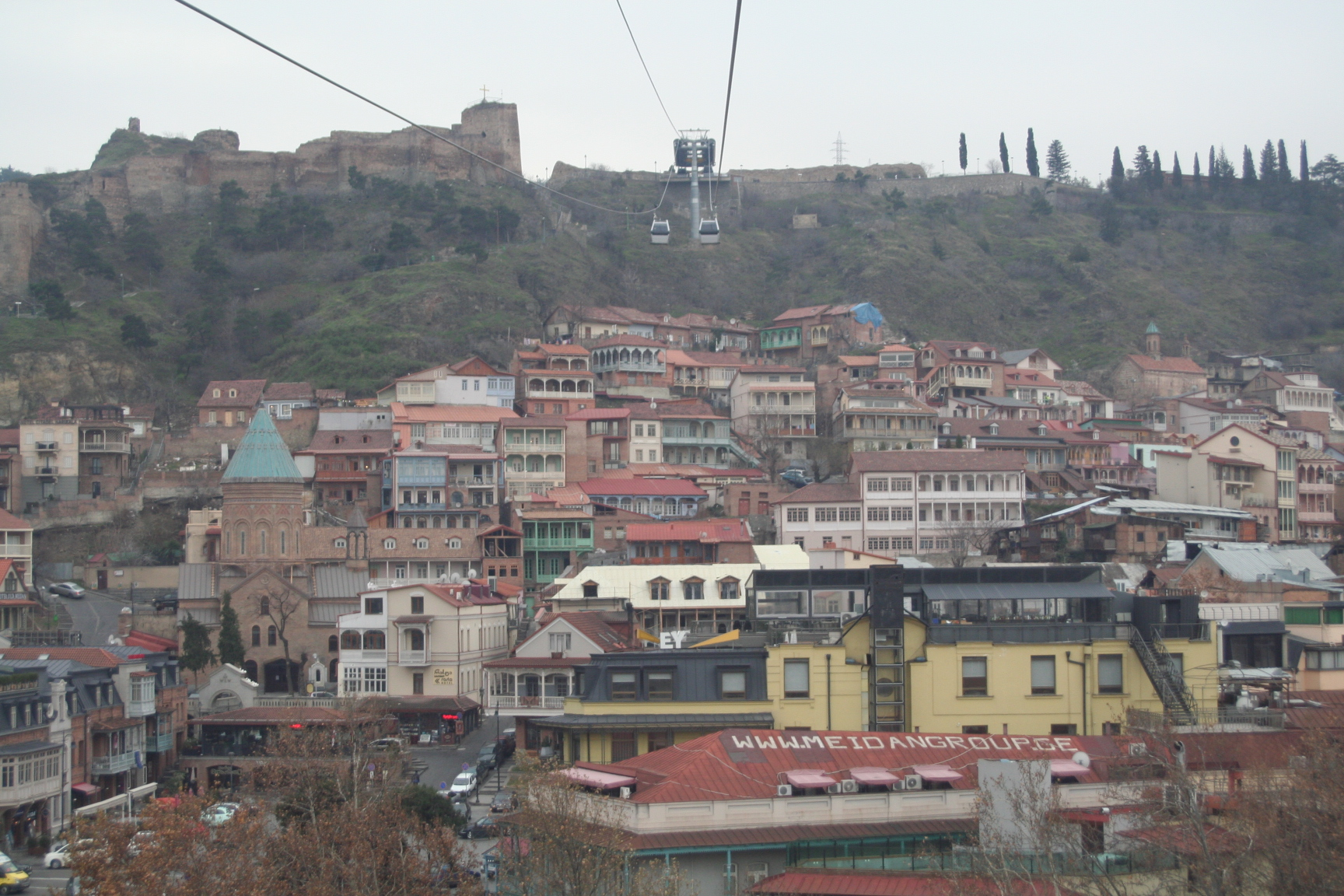 Narikala